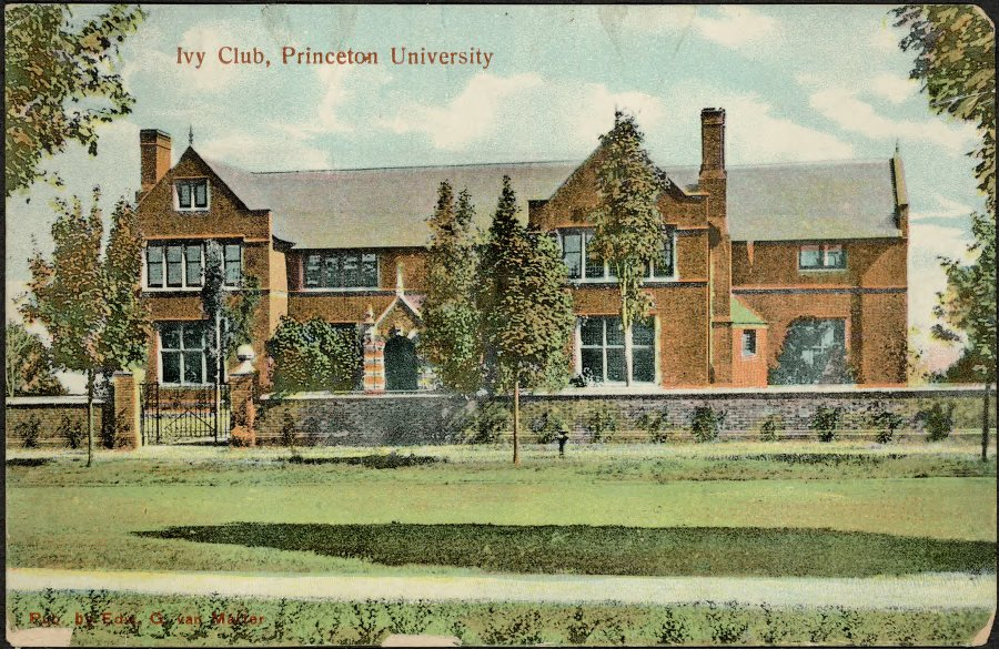 The Ivy Club, Prospect Avenue, Princeton University